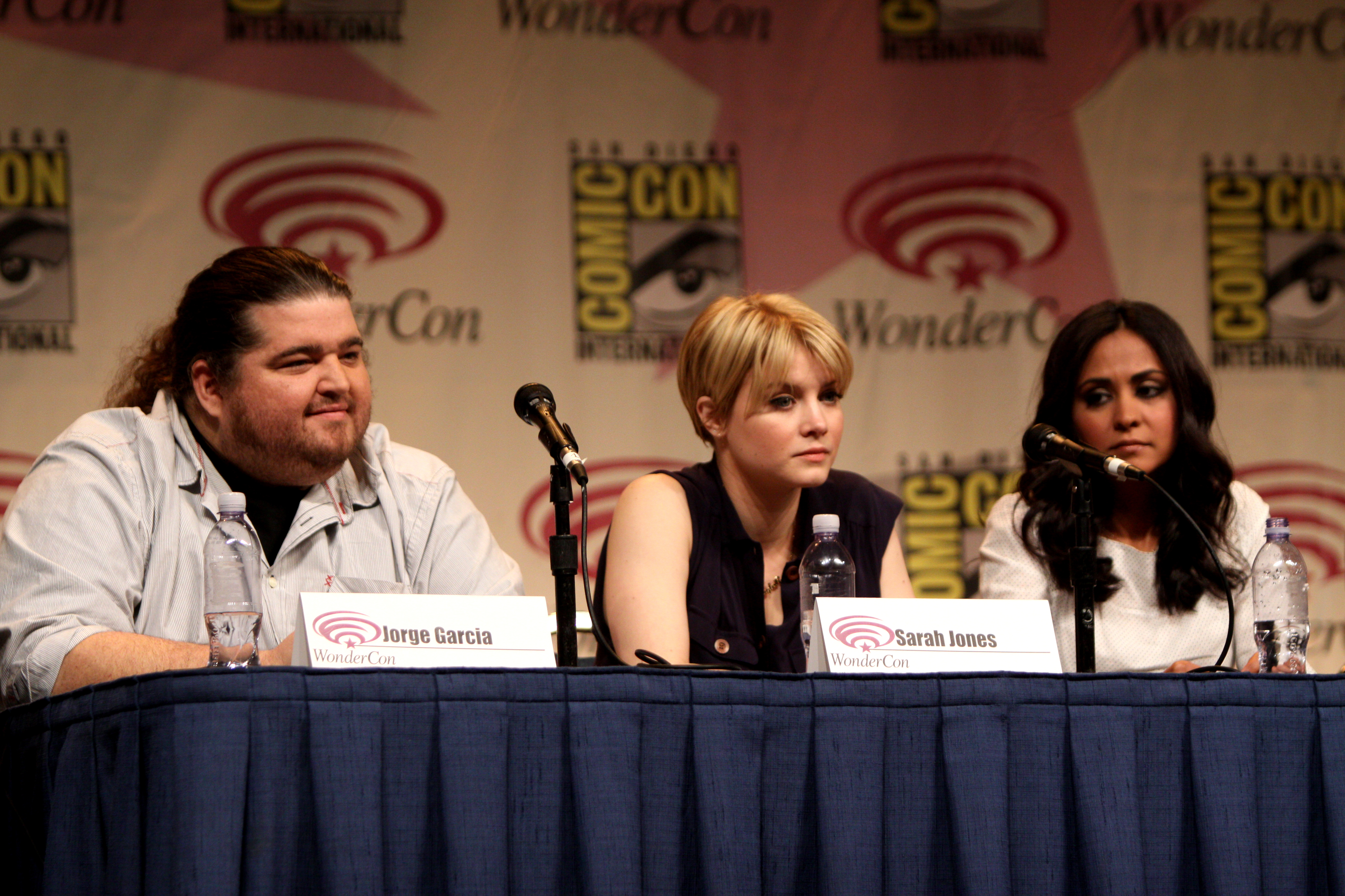 Jorge Garcia, Sarah Jones and Parminder Nagra speaking at Wondercon 2012 in Anaheim, California on March 18, 2012.